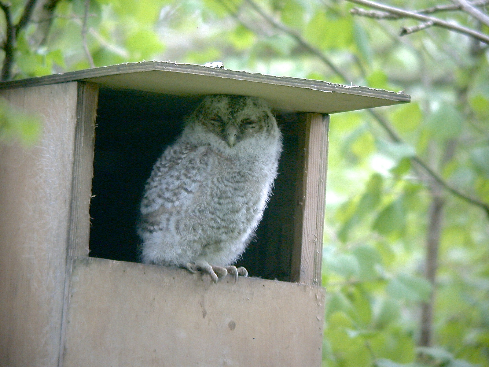 Tawny Owls (juvenile), Haywood, England